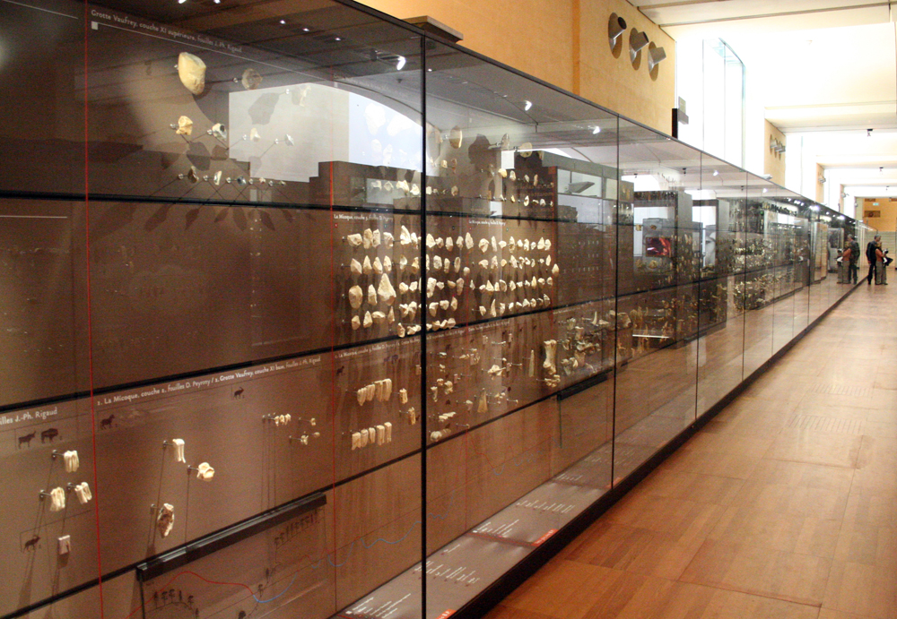 National museum of prehistory, Les Eyzies-de-Tayac-Sireuil, France